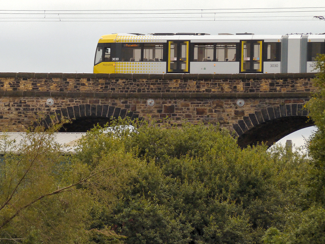 Originally constructed to carry the East Lancashire railway to Bury, the viaduct and a series of bridges now carries the Metrolink tramway over the River Irwell and around the eastern side of Radcliffe, in Greater Manchester, England. Here Metrolink tram no 3030, a Bombardier M5000 it the yellow and silver livery, is seen crossing the viaduct. The view is from the footbridge near Pioneer Mills.